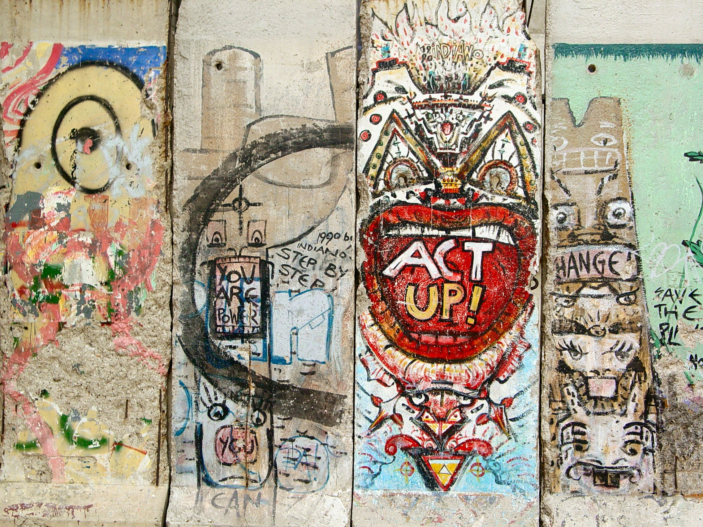 Sections of the Berlin Wall at Freedom Park in Arlington, Virginia.